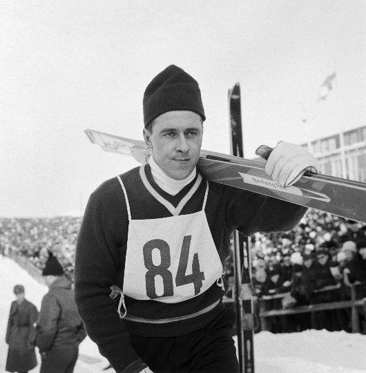 Photograph of the Finnish ski jumper Niilo Halonen in Salpausselkä games.